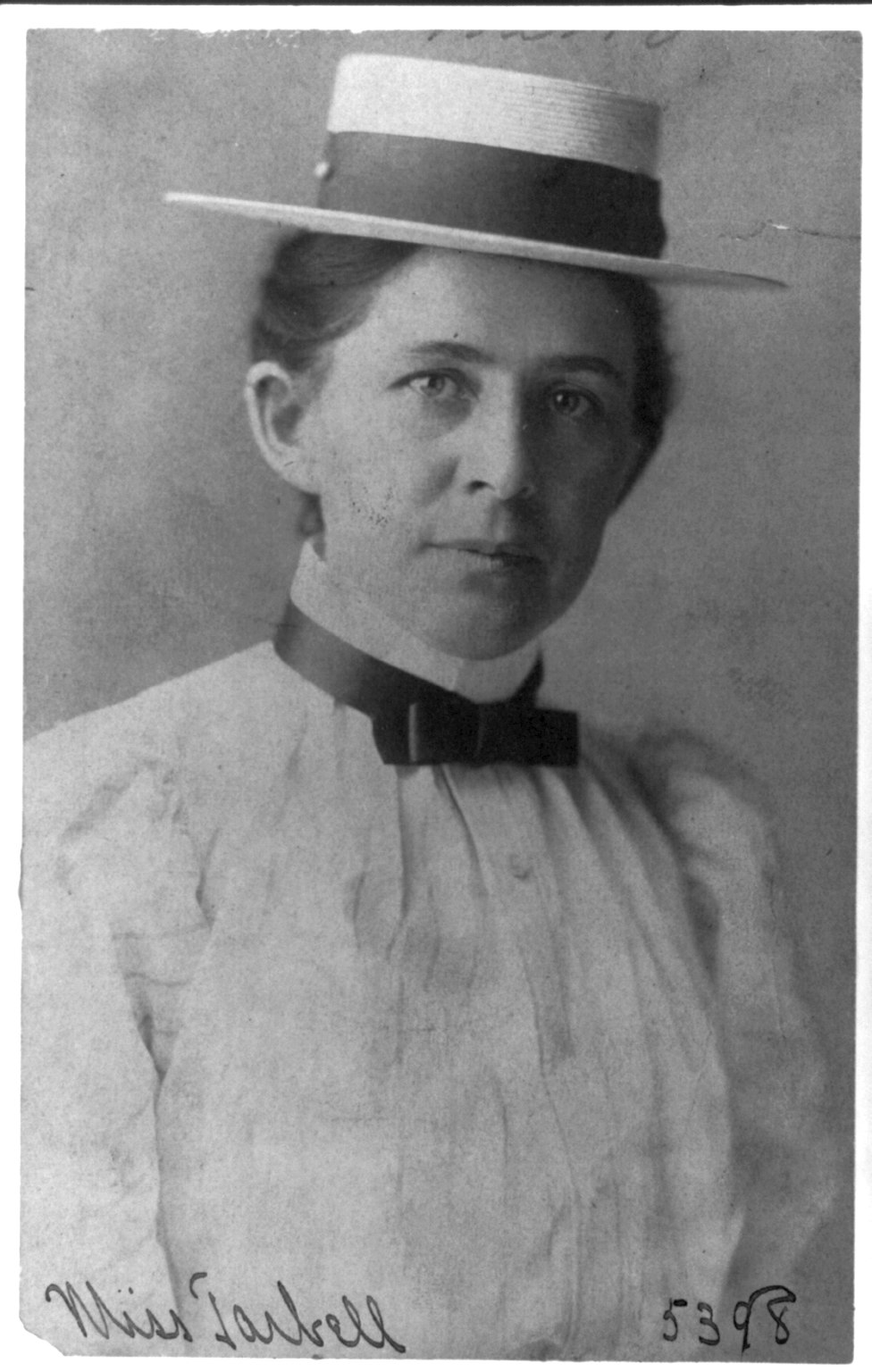 Title: Ida Minerva Tarbell, 1857-1944 Abstract/medium: 1 photographic print : cyanotype.